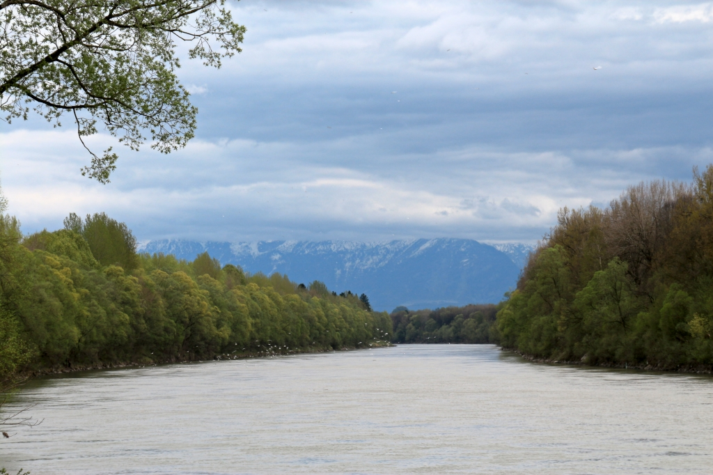 River Salzach at Weitwörth (municipality Nußdorf am Haunsberg, Salzburg (state), Austria; left) and Laufen (Upper Bavaria, Germany; right). View to south. In the back: the Untersberg.